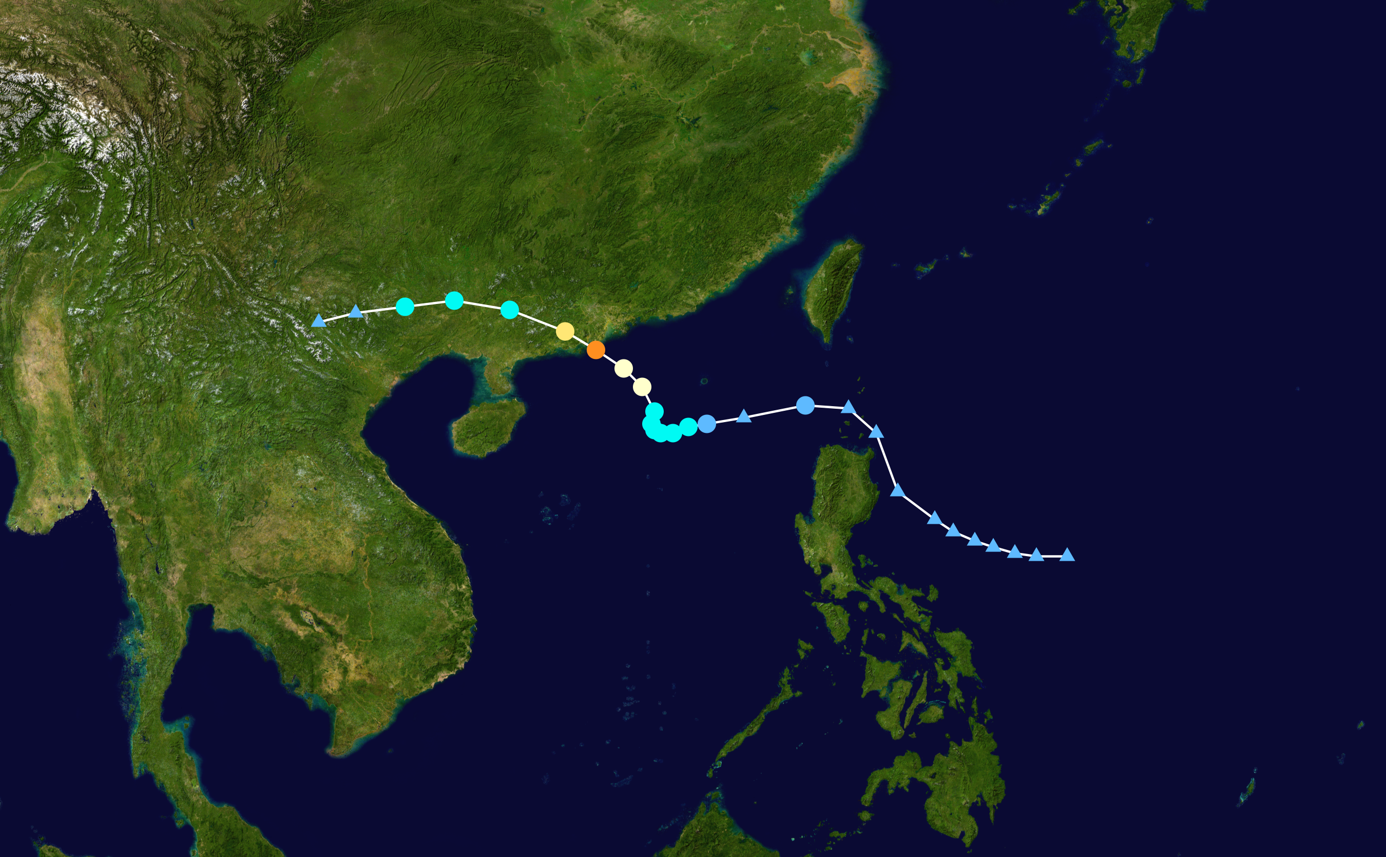 Track map of Typhoon Vicente of the 2012 Pacific typhoon season. The points show the location of the storm at 6-hour intervals. The colour represents the storm's maximum sustained wind speeds as classified in the Saffir–Simpson scale (see below), and the shape of the data points represent the nature of the storm, according to the legend below. Saffir–Simpson scale Tropical depression≤38 mph≤62 km/h Category 3111–129 mph178–208 km/h Tropical storm39–73 mph63–118 km/h Category 4130–156 mph209–251 km/h Category 174–95 mph119–153 km/h Category 5≥157 mph≥252 km/h Category 296–110 mph154–177 km/h Unknown Storm type Tropical cyclone Subtropical cyclone Extratropical cyclone / Remnant low / Tropical disturbance / Monsoon depression